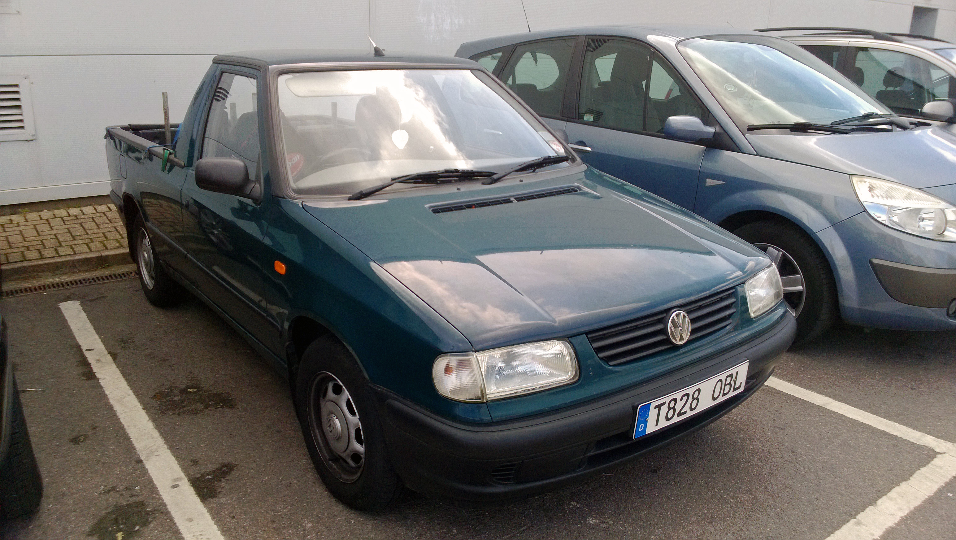 1999 Volkswagen Caddy 1.9D SD. I thought it was a Skoda on foreign plates... Wrong!